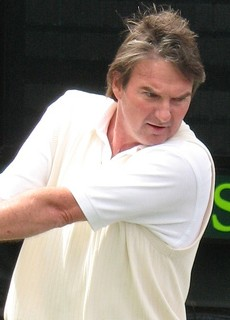 Jimmy Connors, Miami, Florida 2007